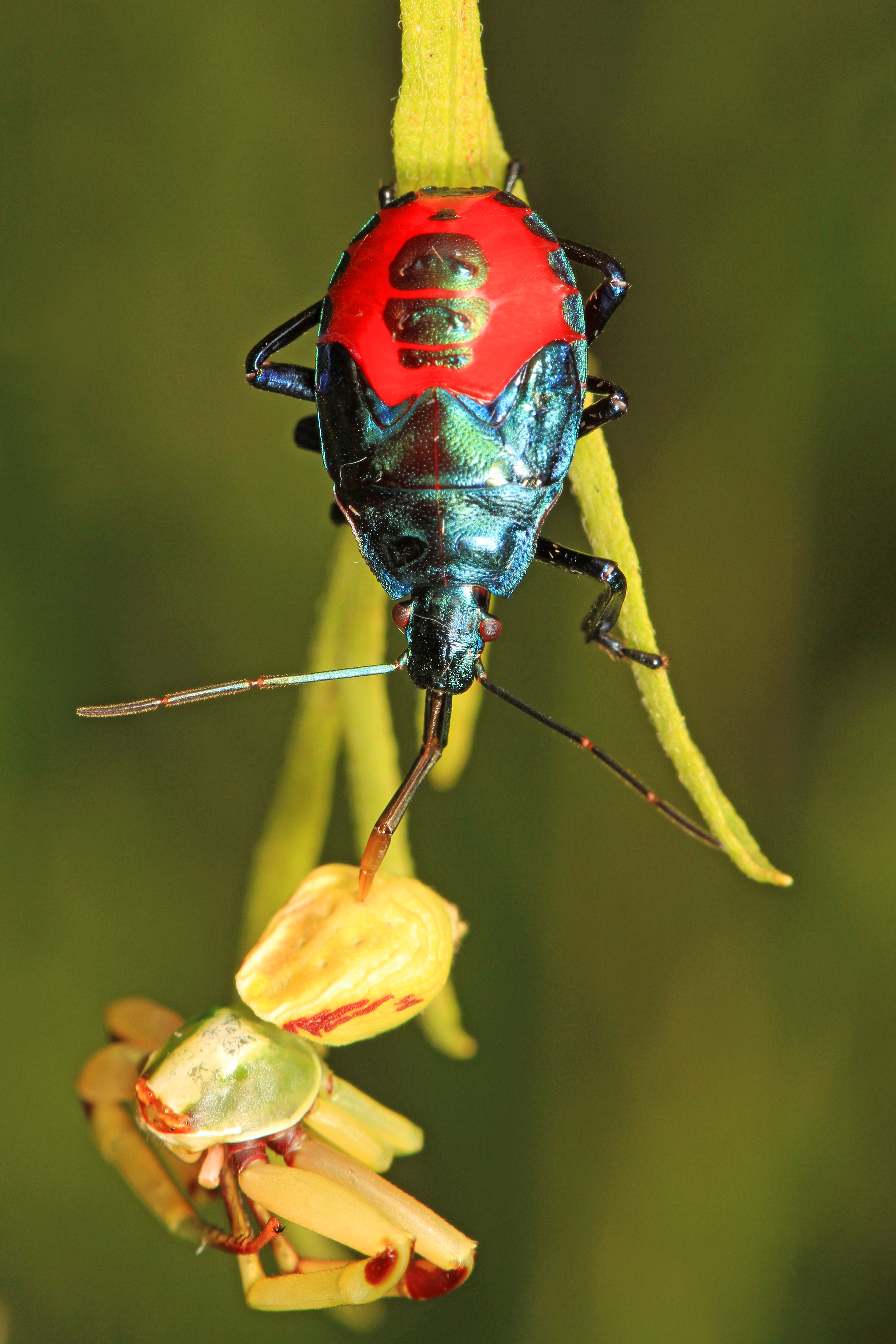 Florida Predatory Stink Bug - Euthyrhynchus floridanus and White-banded Crab Spider - Misumenoides formosipes, Carolina Sandhills National Wildlife Refuge, McBee, South Carolina. when predator becomes prey